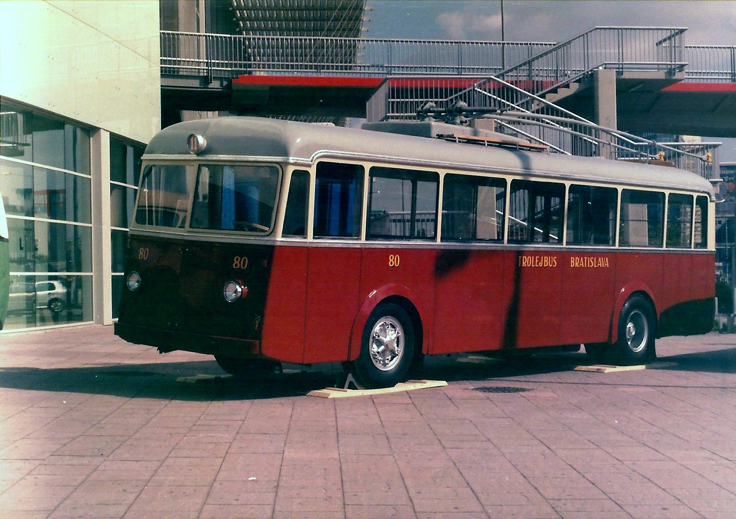 FBW Oerlikon historical trolleybus in Bratislava